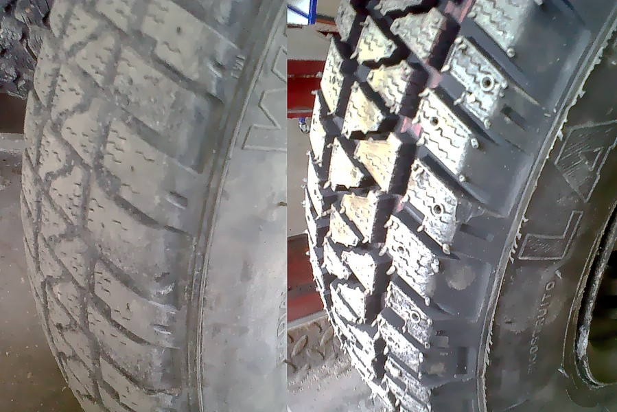 Two tires, one with a new tread, and one with the tread completely consumed